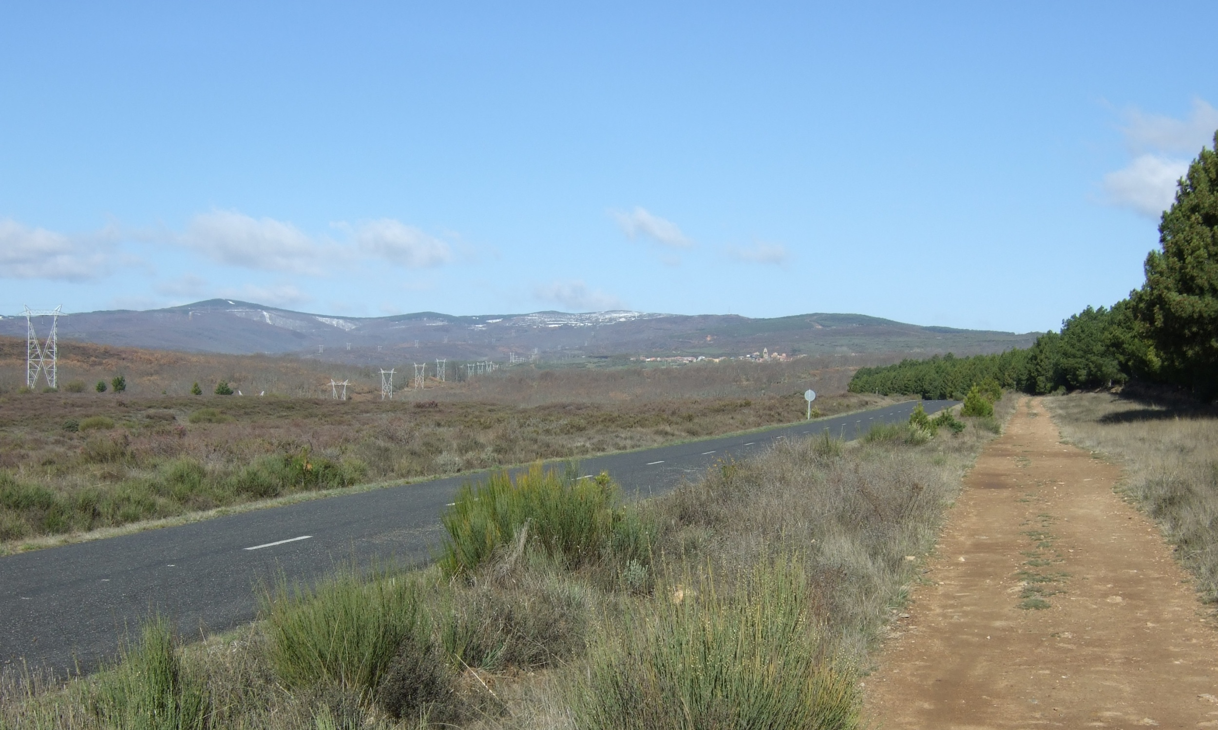 camino frances - Rabanal del Camino